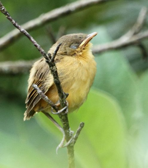 Juvenile dark-capped yellow warbler Iduna natalensis at Cedara Research Station, KwaZulu-Natal, South Africa.